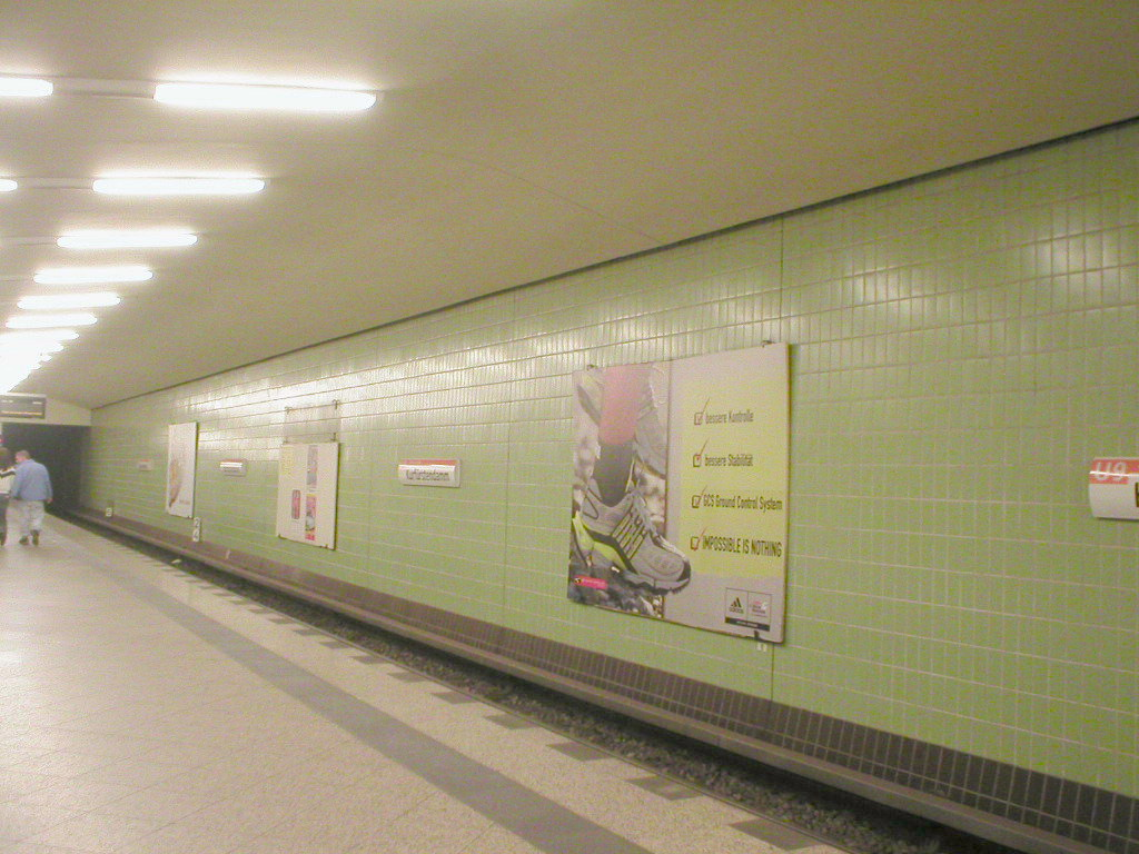 The Berlin U-Bahn station Kurfürstendamm, line U9